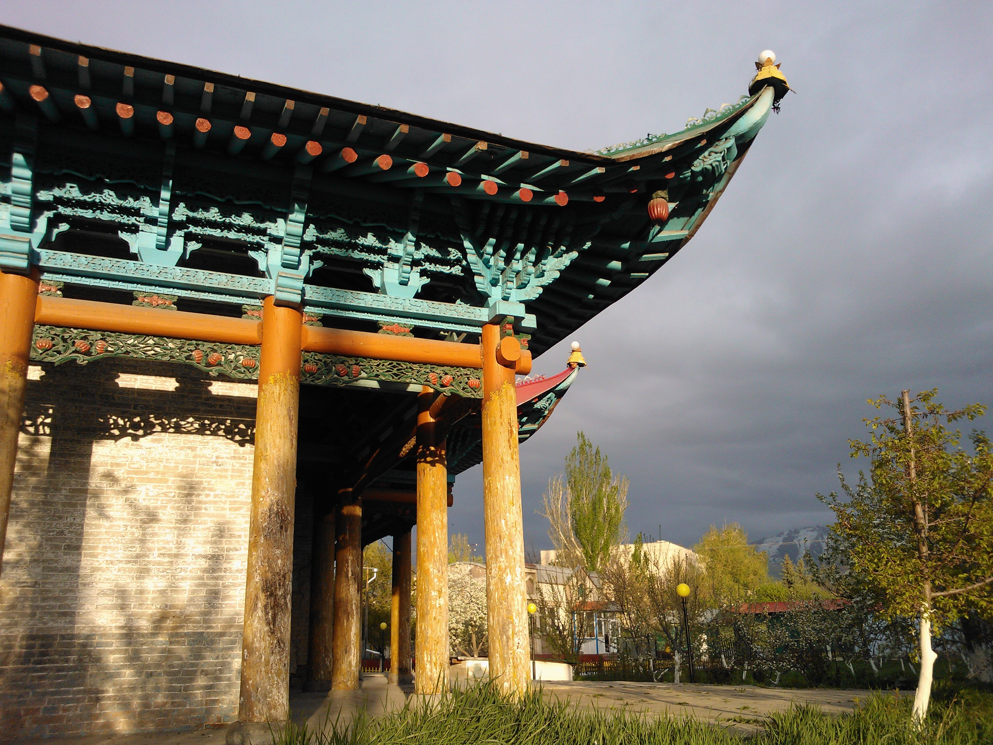 Dungan mosque in Karakol, Kyrgystan.Српски (ћирилица): Дунганска џамија у граду Каракол, Киргистан. Дунгани су муслимани родом из Кине.